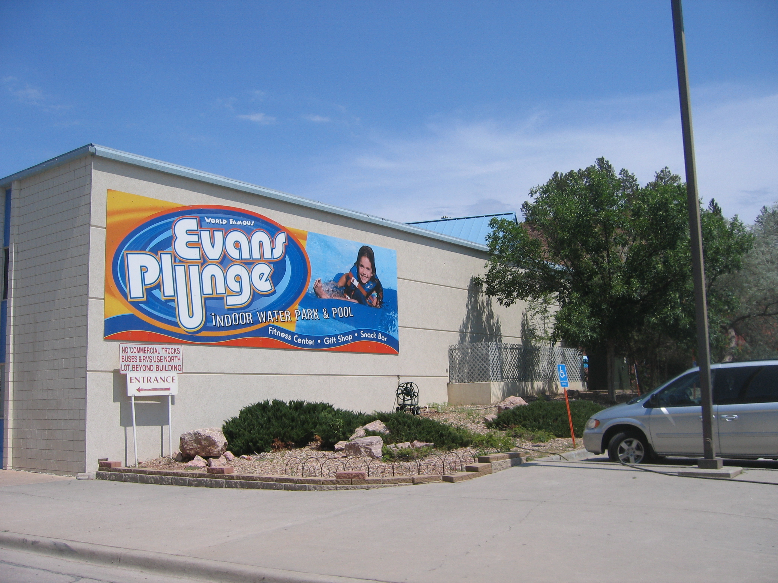 Indoor and outdoor swimming pool in Hot Springs